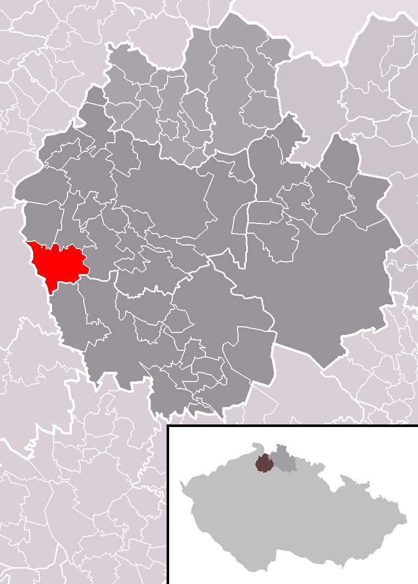 Location of Blíževedly municipality within Česká Lípa District and administrative area of Česká Lípa as a Municipality with Extended Competence.